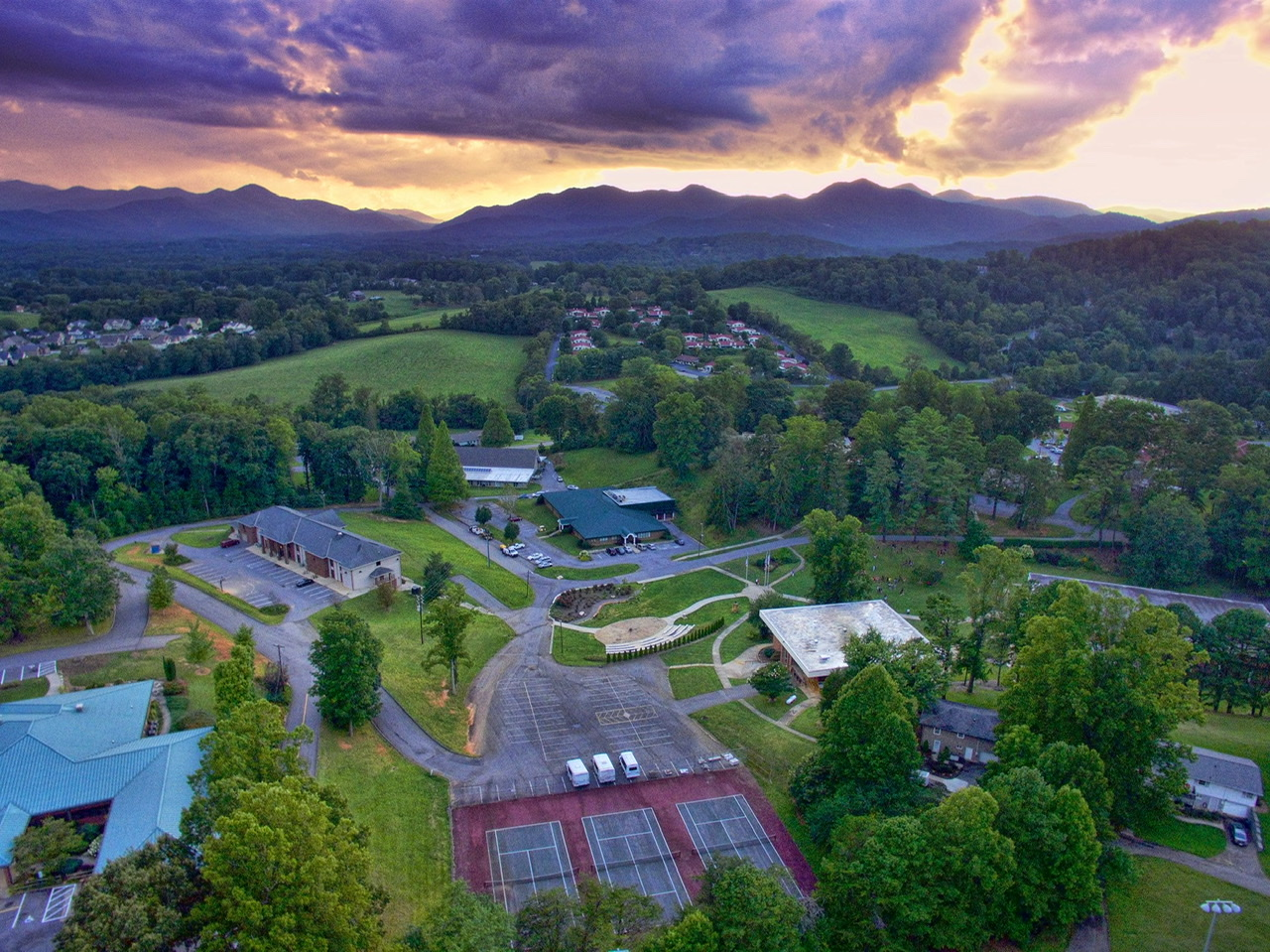 Mount Pisgah Academy, a Seventh-day Adventist boarding high school, is pictured here.